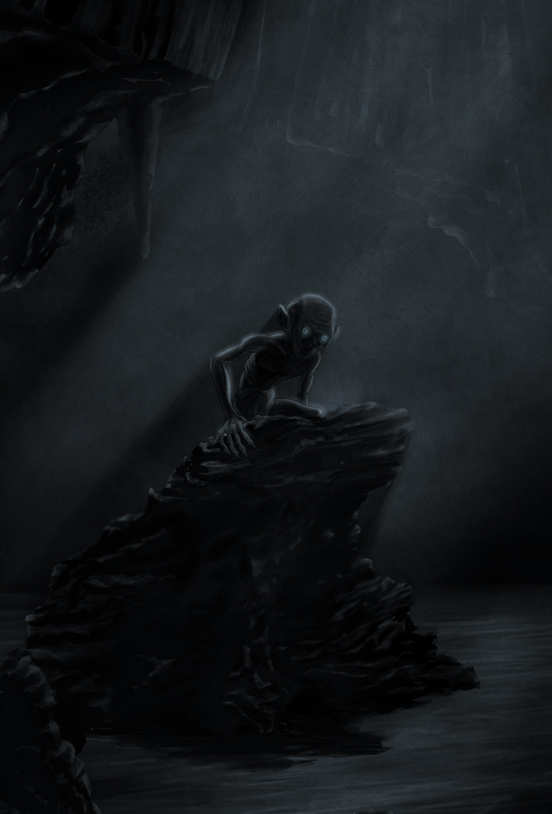 Gollum by Argent-Sky